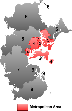 Map of Zhanjiang in Guangdong province.